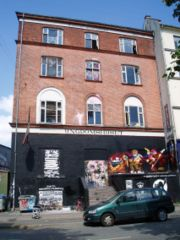 Ungeren